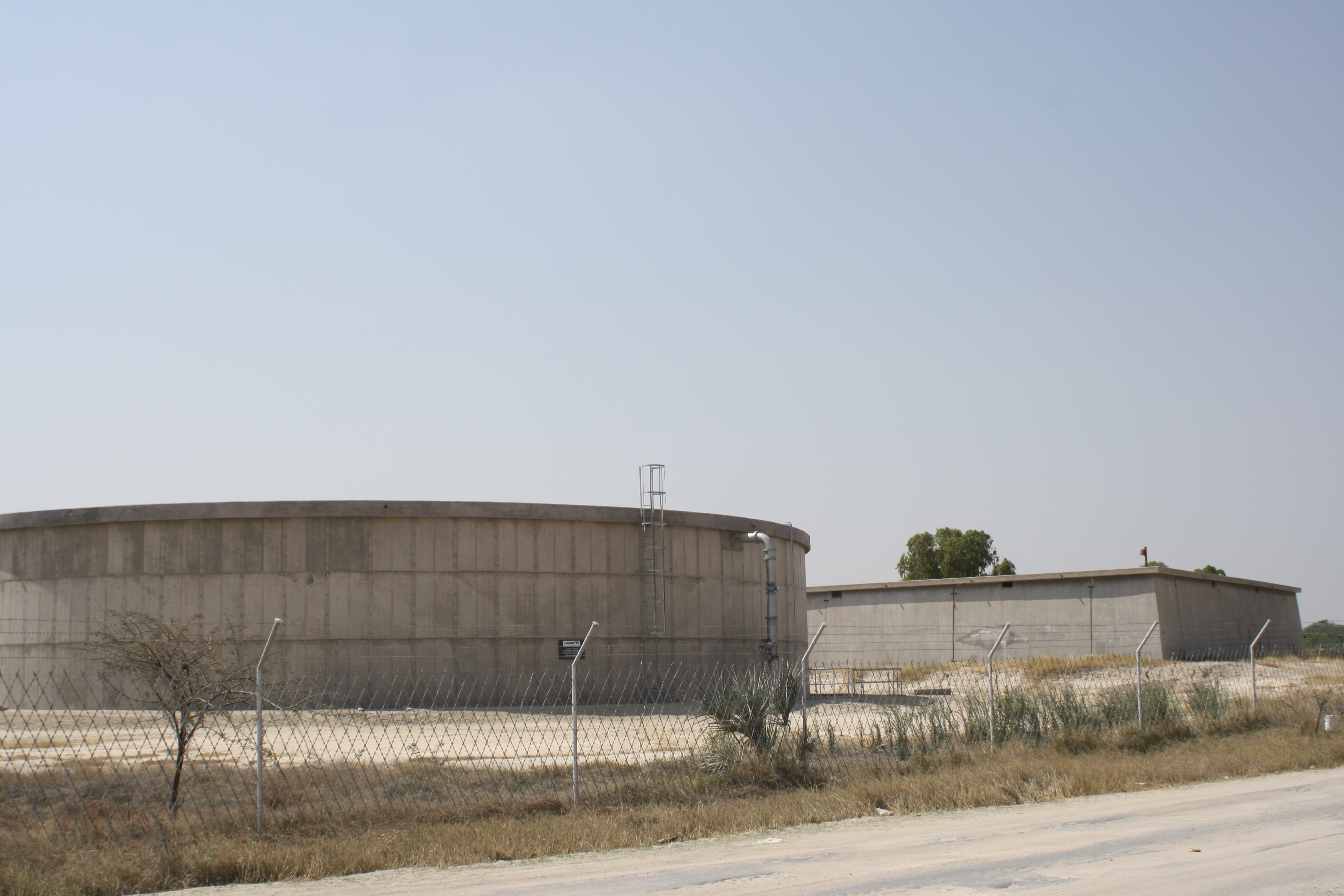 NamWater Station in Ongwediva, Namibia